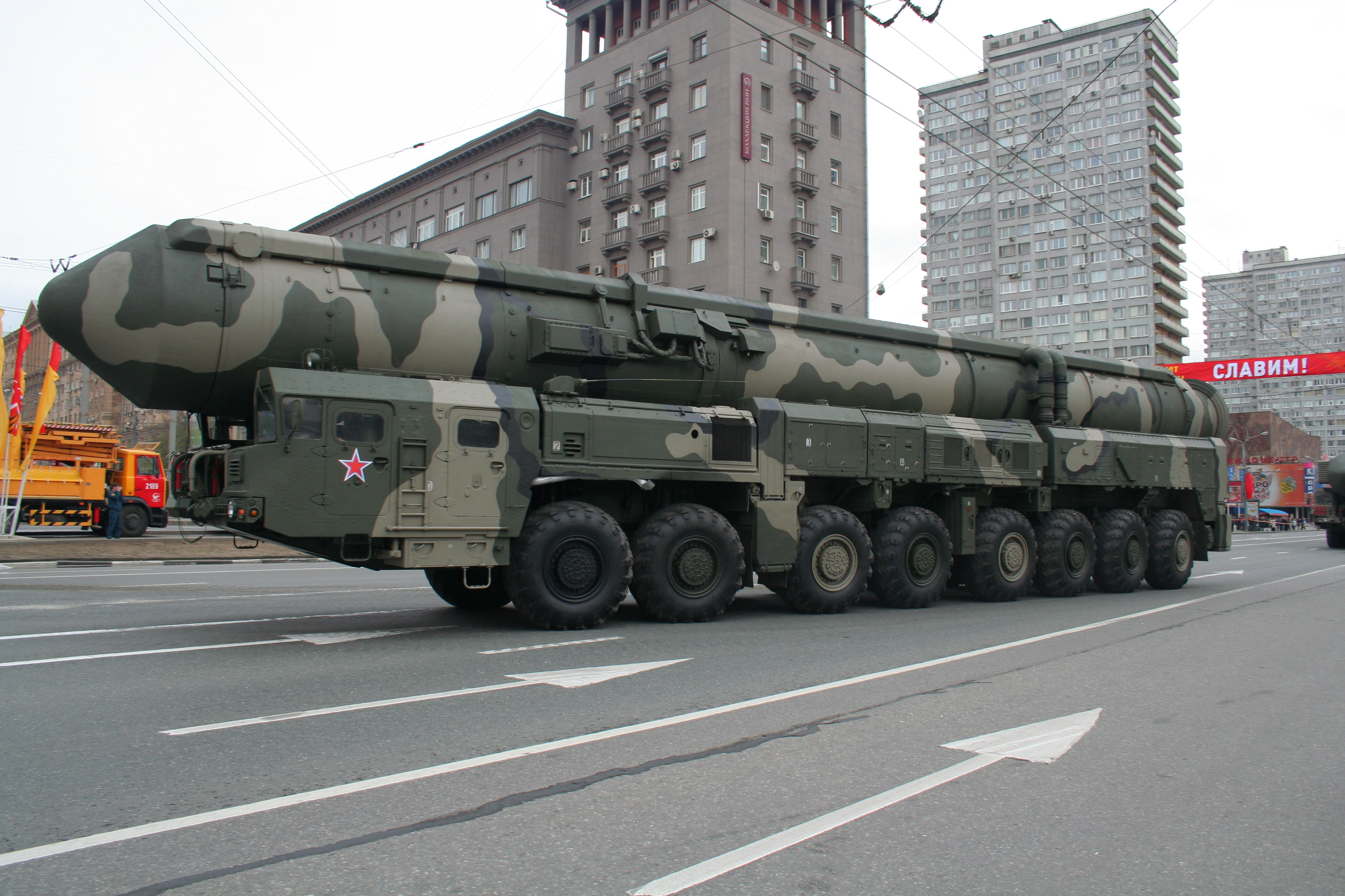 Training of Moscow Victory Parade 2010